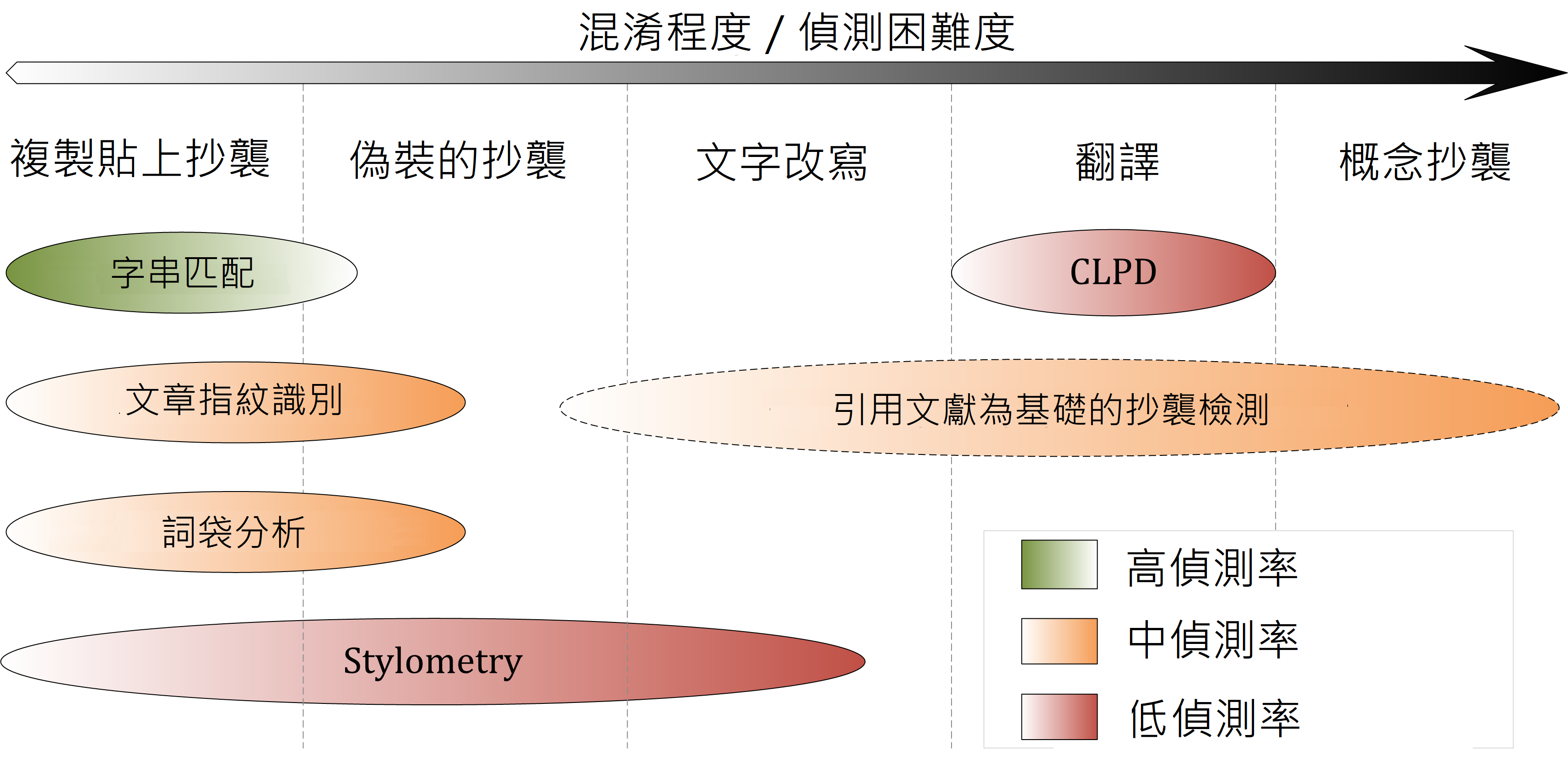 The figure summarizes the suitability of different plagiarism detection approaches depending on the form of plagiarism being present. 中文（台灣）: 此圖整理不同抄襲檢測技術的性能差異, 和抄襲的方式有關